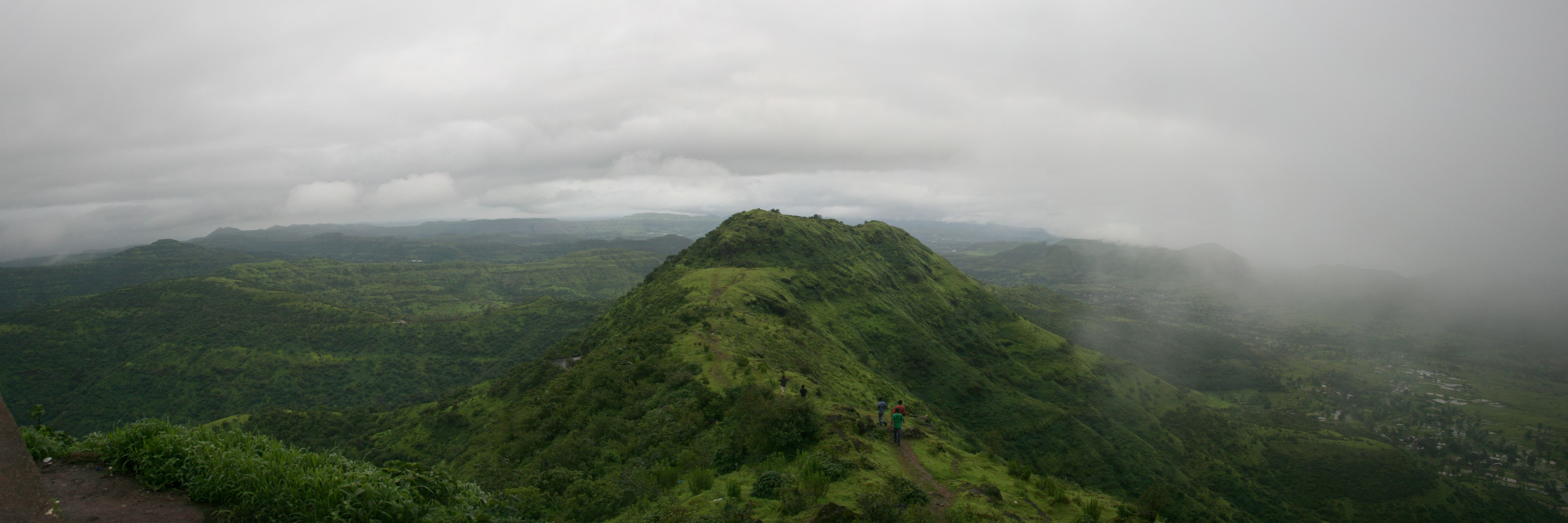 Digitally stitched panorama of a scenic view from Sinhagad fort Pune India